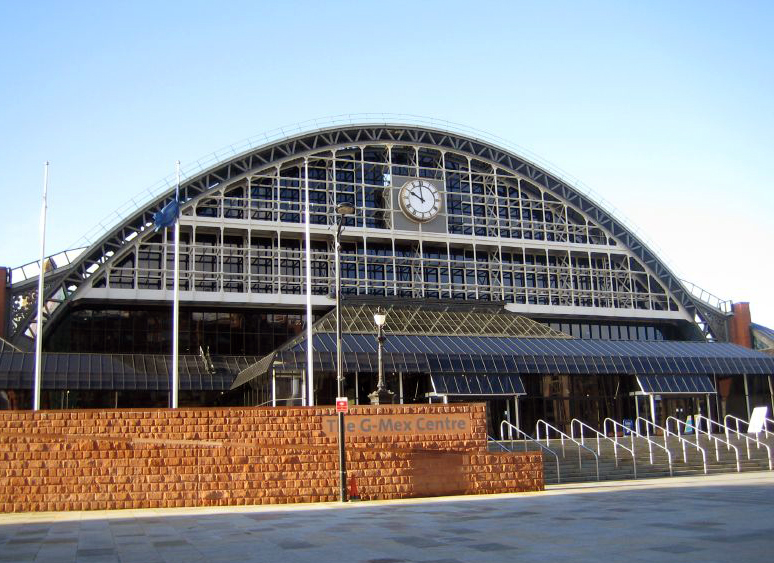 Manchester Central, formerly the Greater Manchester Exhibition Centre (G-Mex), and before that the central railway station of Manchester, England.